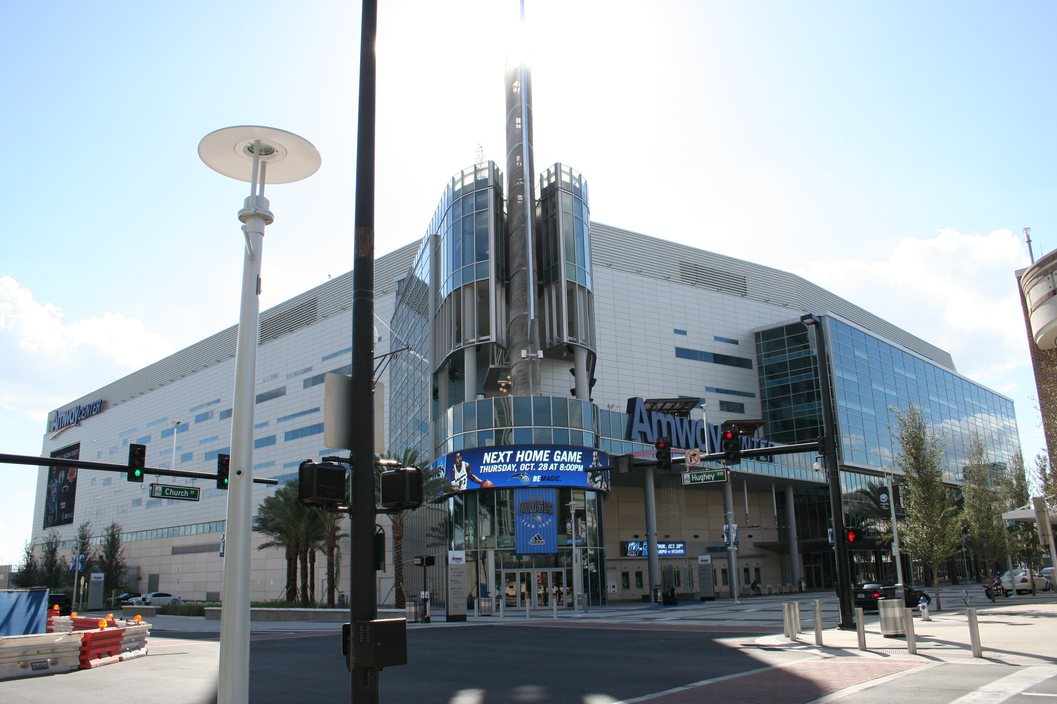 Amway Center the day before the Magic's first NBA regular season game in the new arena. Northeast corner of arena.